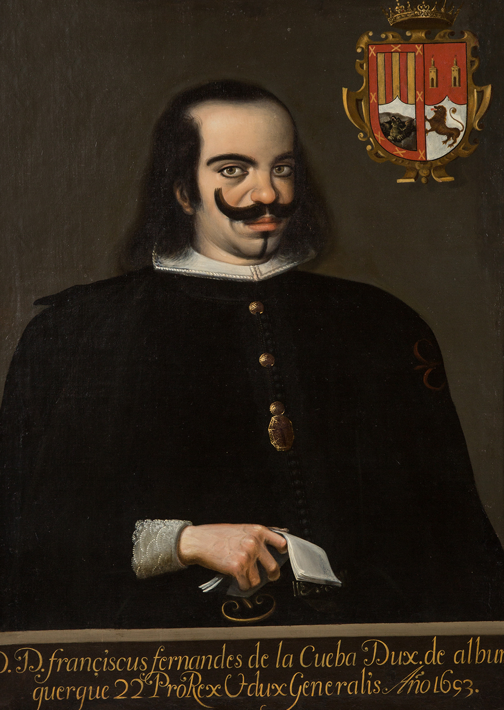 Viceroy Francisco Fernández de la Cueva, 8th Duke of Alburquerque (1619-1676)